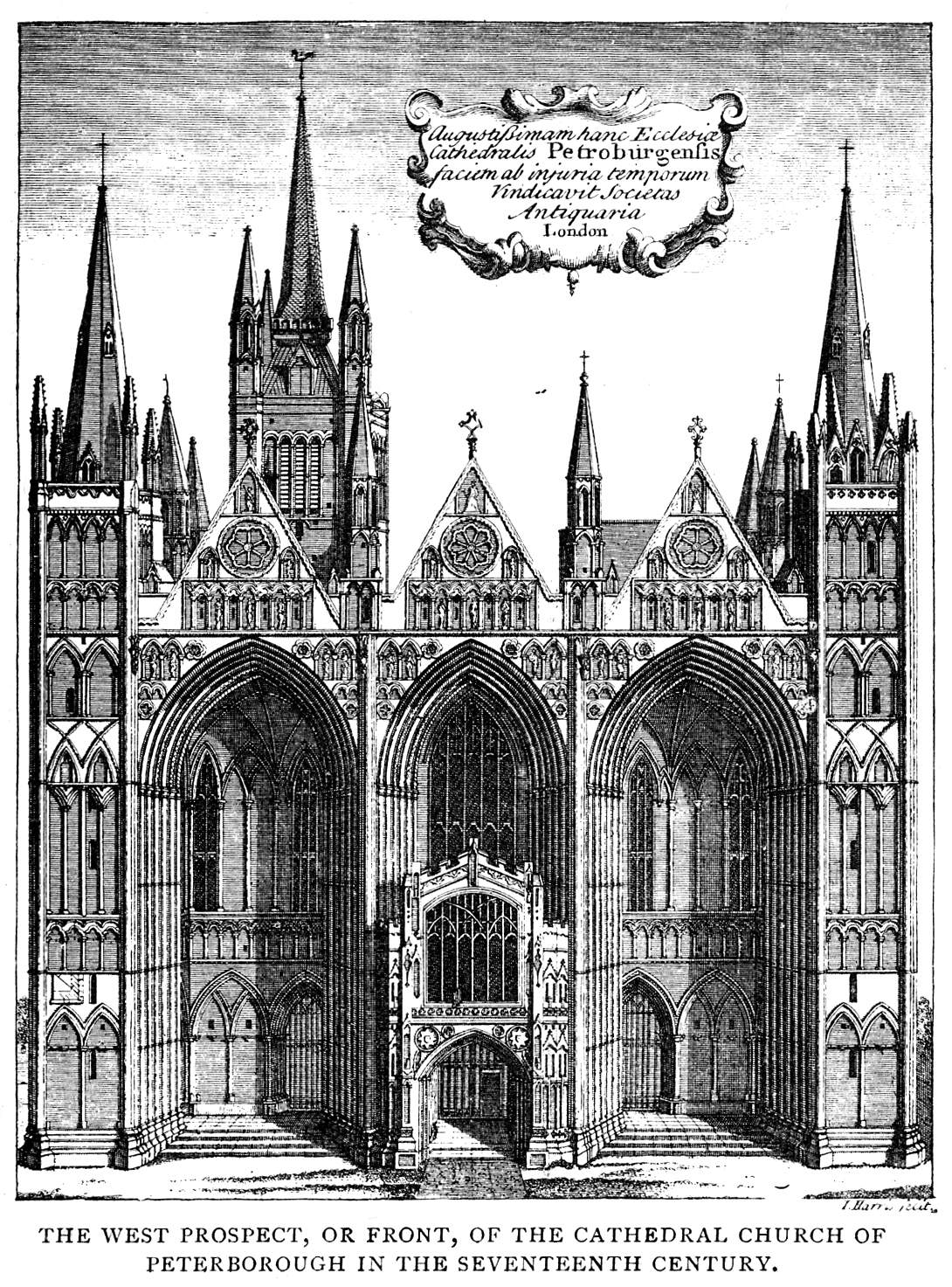 Peterborough Cathedral West prospect C17 - Project Gutenberg eText 13618